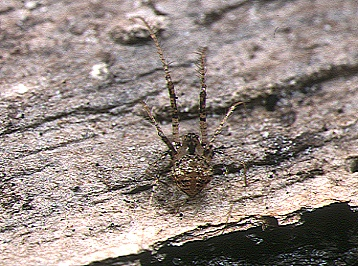 female Mimetus ryukyus from Okinawa.